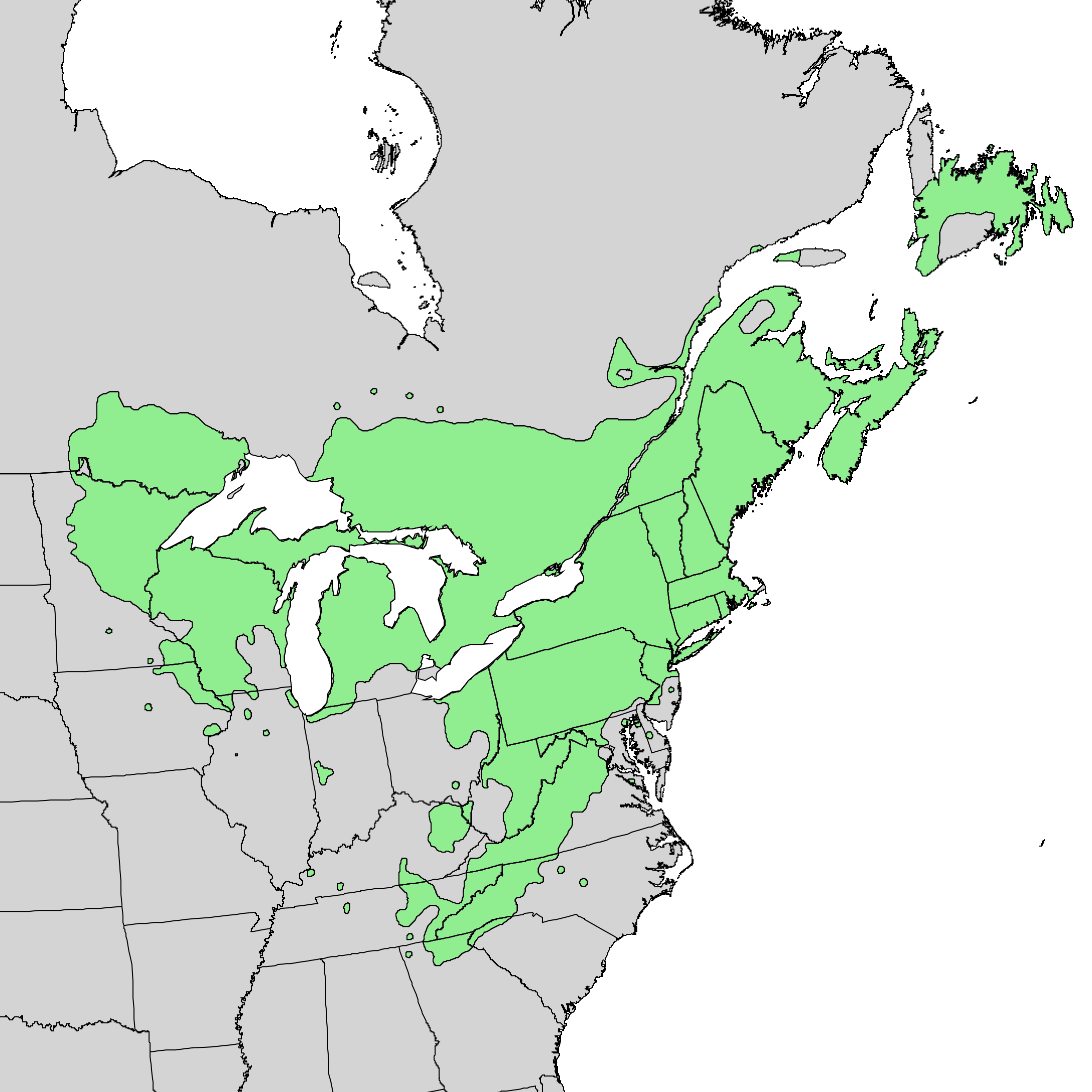 Natural distribution map for Pinus strobus